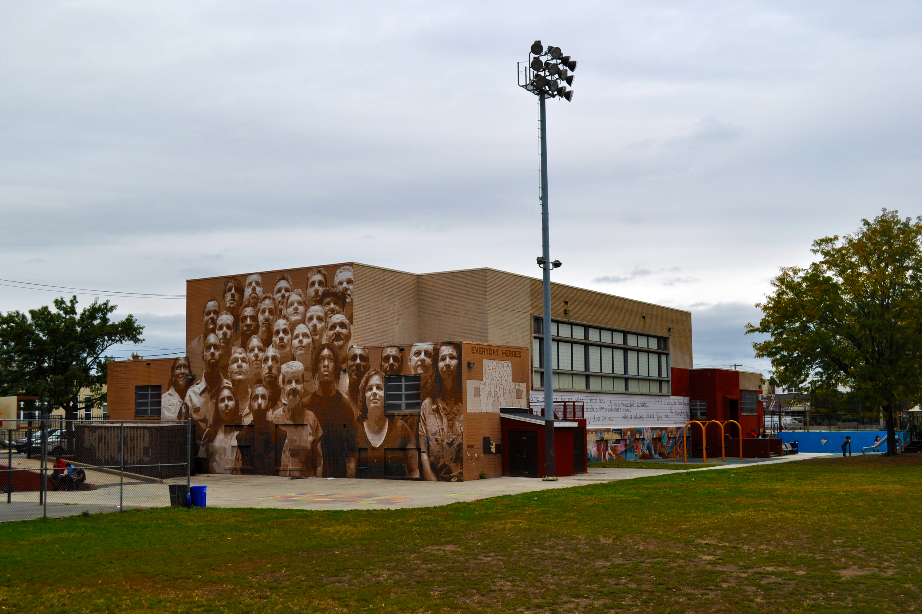 Lawrence E Murphy Recreation Center 300 W Shunk St Philadelphia PA 19148